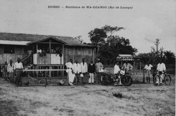 Diosso - King of Loango (Mâ Loango) residence